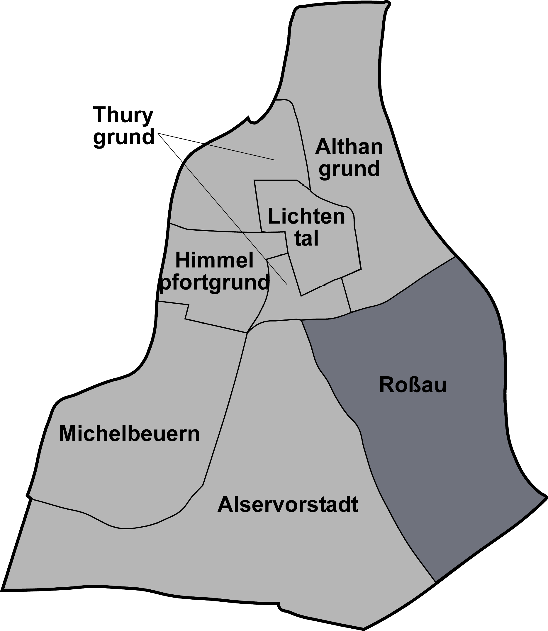 Map of Alsergrund, Roßau highlighted